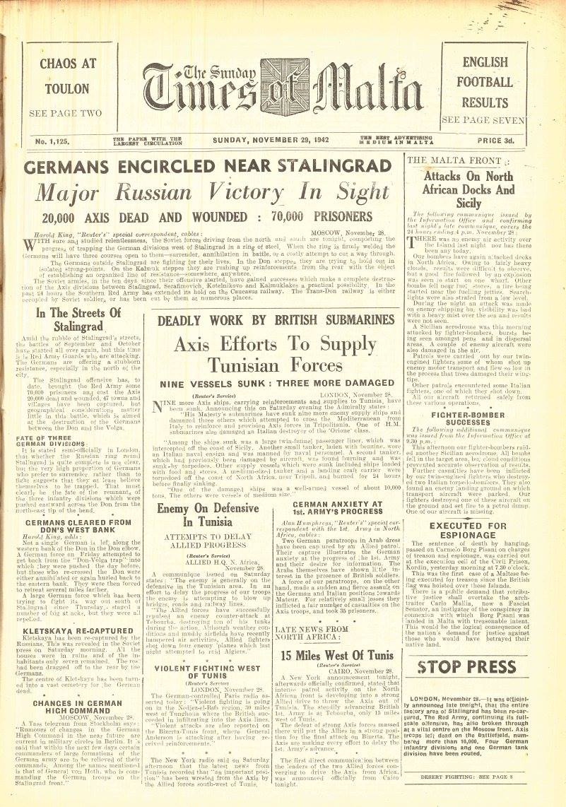 The day after Carmelo Borg Pisani’s execution. The Sunday times of Malta reports his death. Malti: L-għada tal-mewt ta’ Carmelo Borg Pisani; is-Sunday Times of Malta tagħti l-aħbar li ġie mogħti l-forka.